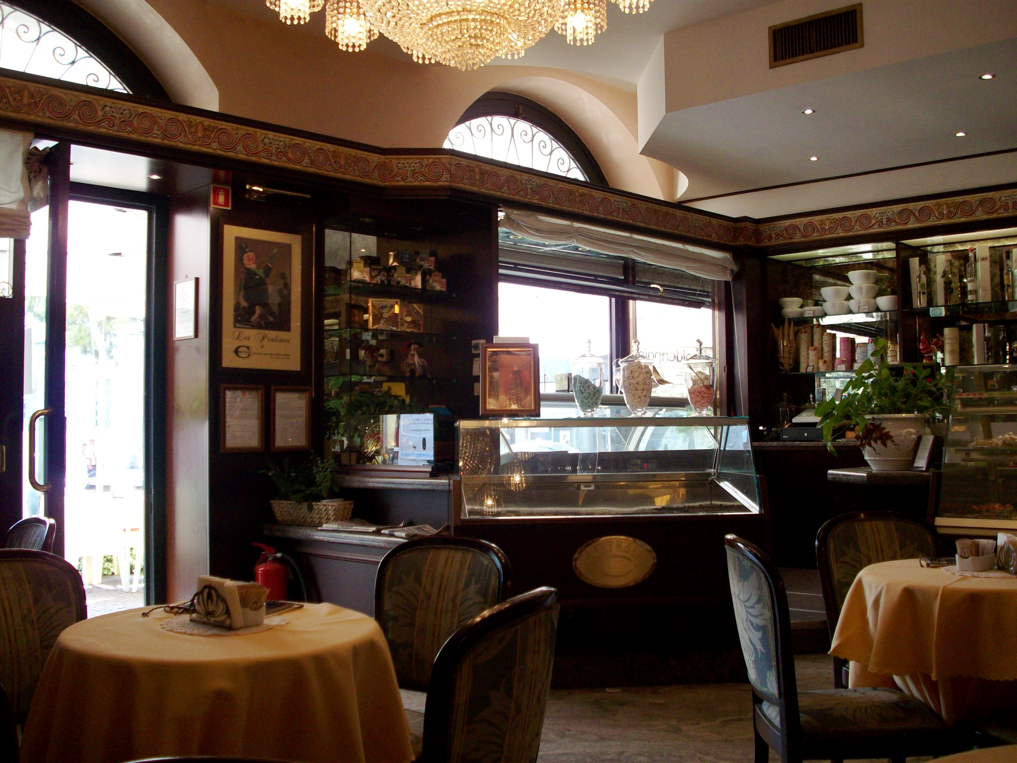 Caffè Central by Cova in Lecco, Italy.